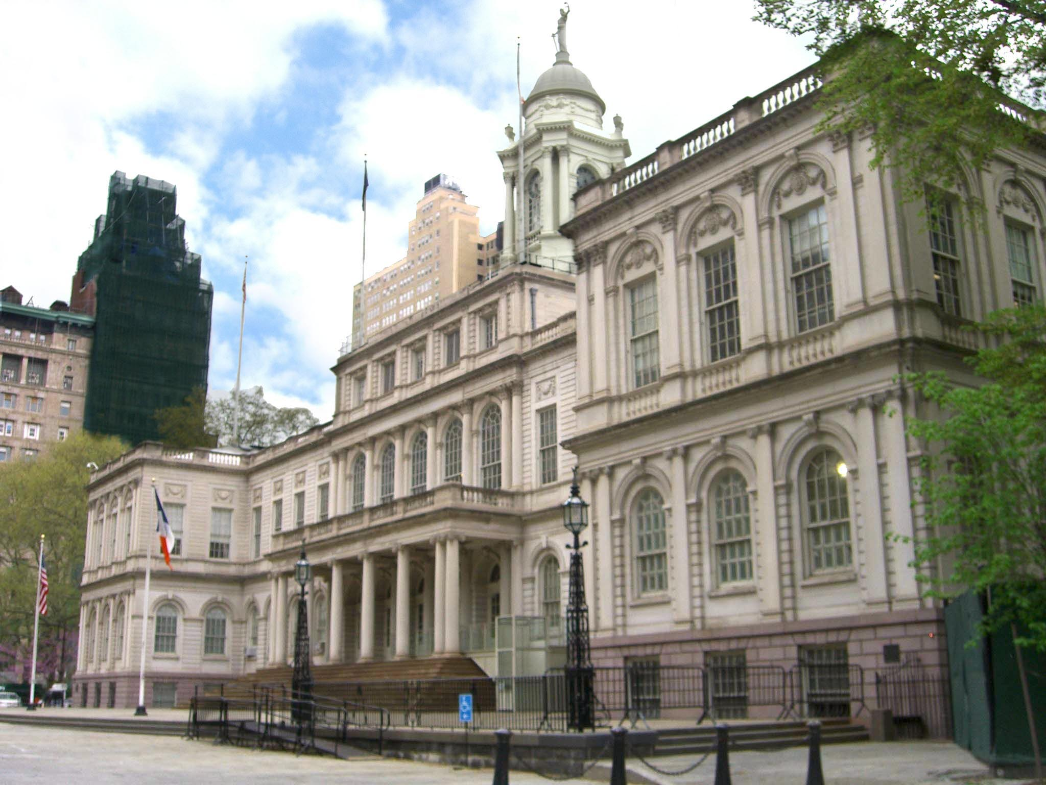 The New York City Hall on 5th Avenue at 41st Street in Manhattan, photographed April 29, 2011. Photographed by Luigi Novi. This photo is not in the public domain. It may, however, be used, modified and published for any purpose, free of charge, only if the photographer is properly credited, either by linking the photograph to this page, or with an easily visible credit to the photographer placed near the photo in each instance in which it is used. (See licensing information below.) Publication of this photo without this proper attribution constitutes copyright infringement. If you have any questions, you can contact me on my Wikipedia Talk Page.